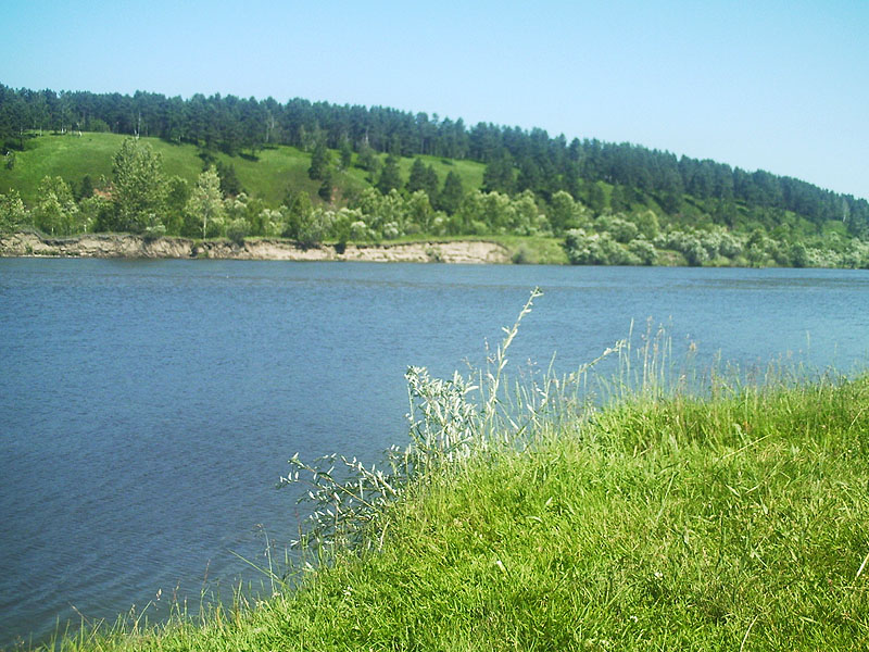 Irkut River near Baklashi and Shelekhov